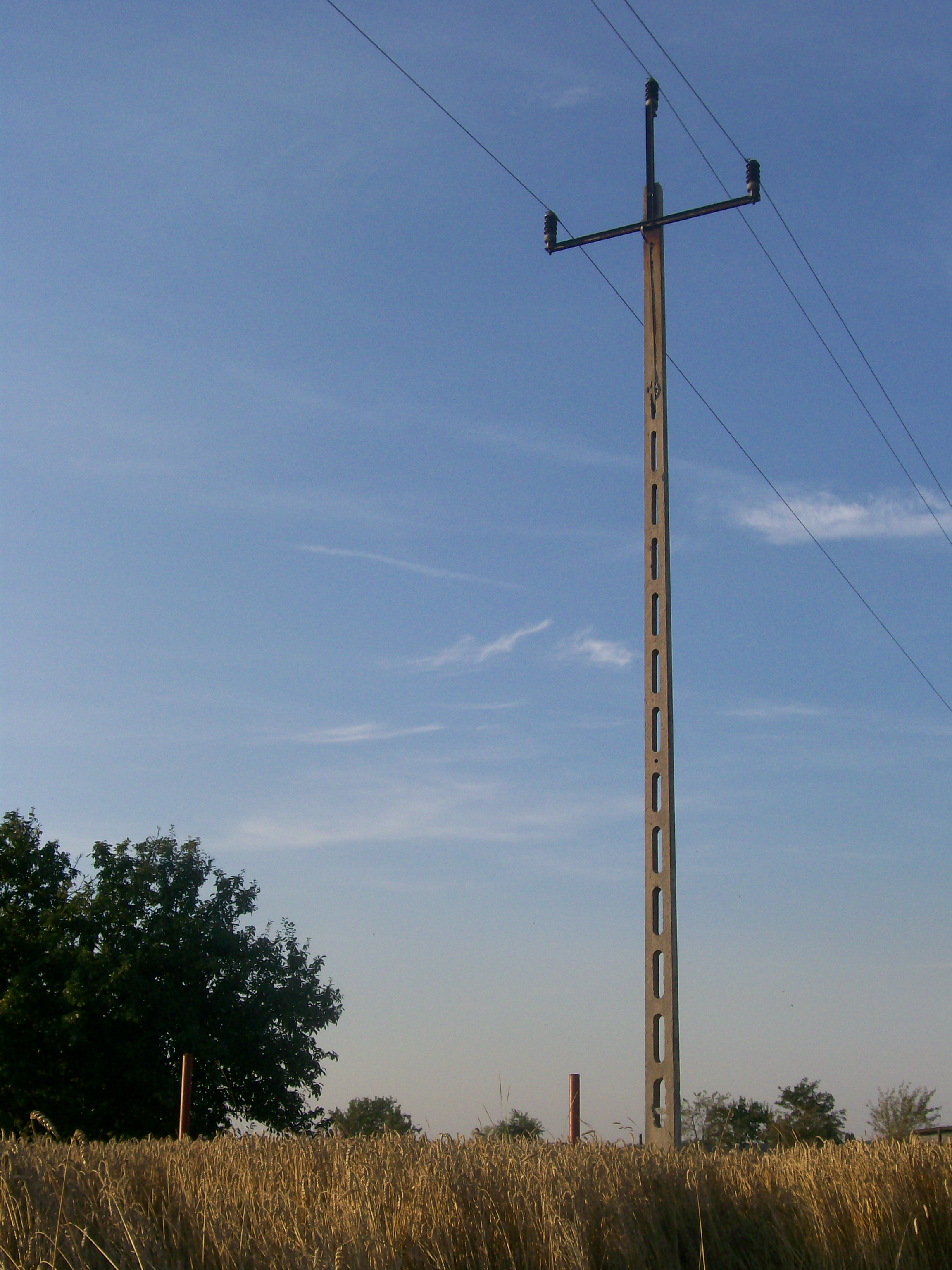 medium/middle tension power (15 000 Volts) lines in Sieniec near Wieluń in Poland.